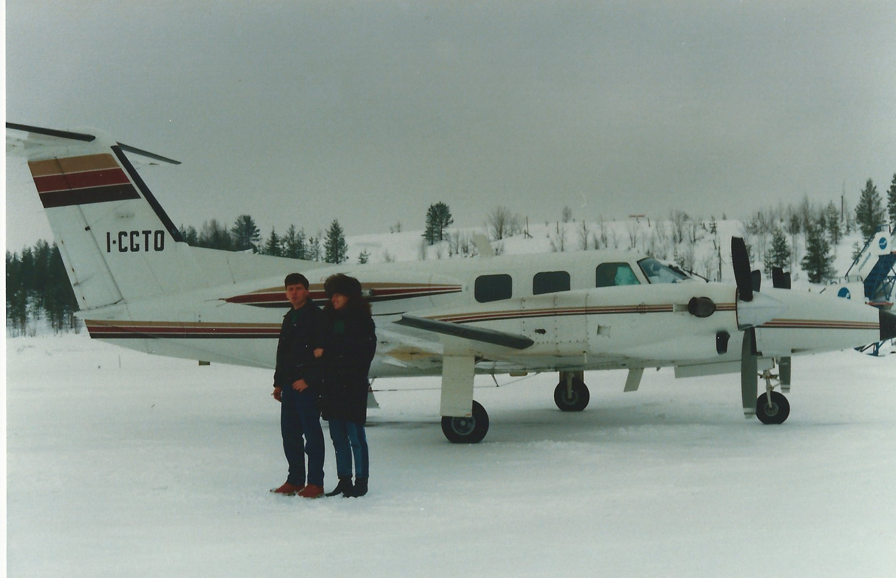 Alfredo and Mariapaola Stola, Piper PA-42 Cheyenne III (I-CGTO) at Rovaniemi Airport in March 1988.